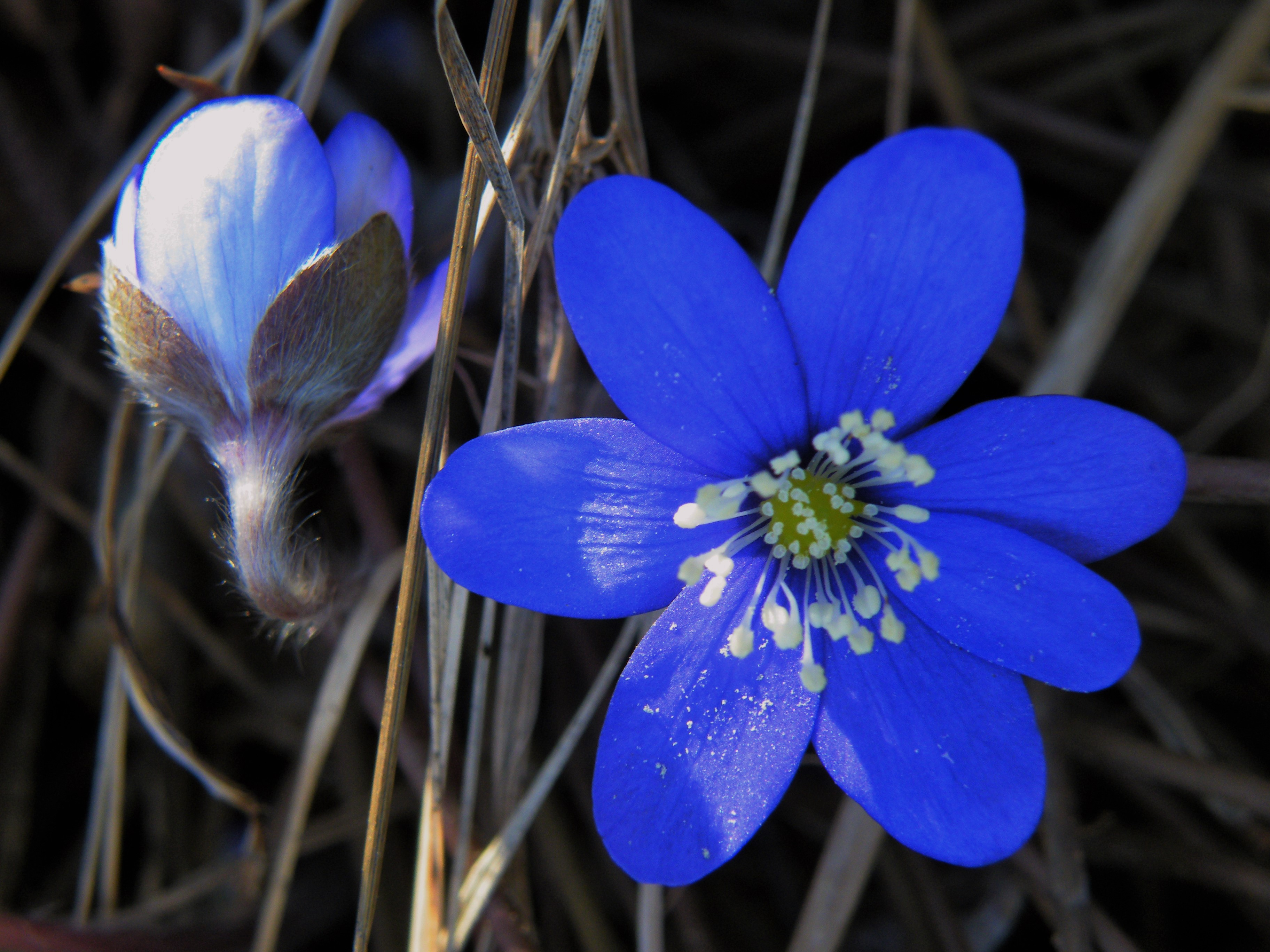 Macro photo of Hepatica Nobilis, Finland.